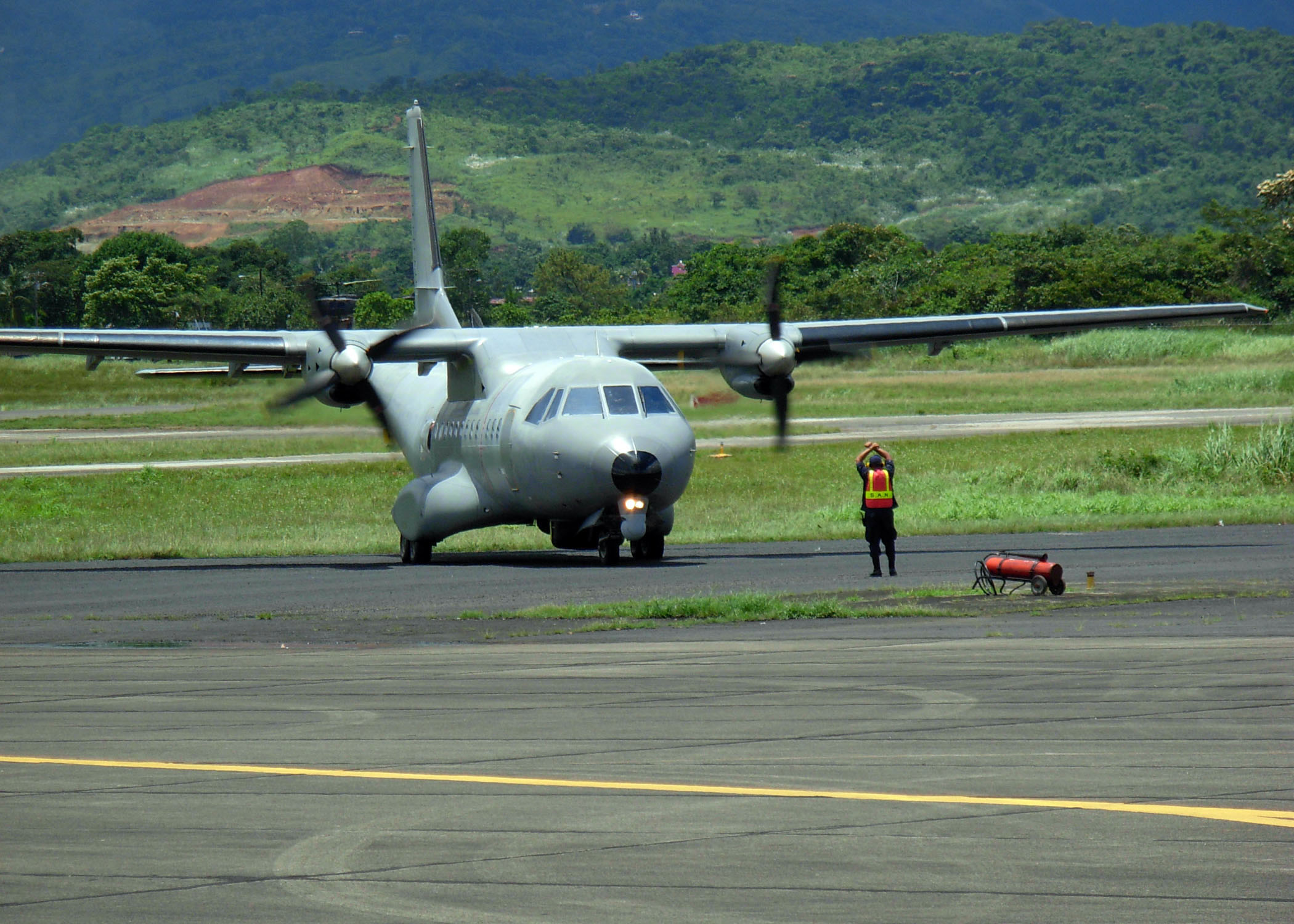 TOCUMEN, Panama (Sept. 1, 2007) - A Panamanian airman guides a Colombian CN-235 aircraft onto the tarmac at Tocumen International Airport as part of the Combined Forces Air Combatant Command during PANAMAX 2007. Civil and military forces from 19 countries are participating in PANAMAX, a U.S. Southern Command joint and multi-national training exercise co-sponsored with the government of Panama, in the waters off the coasts of Panama and Honduras. U.S. Navy photo by Mass Communication Specialist 2nd Class Lolita Lewis (RELEASED)